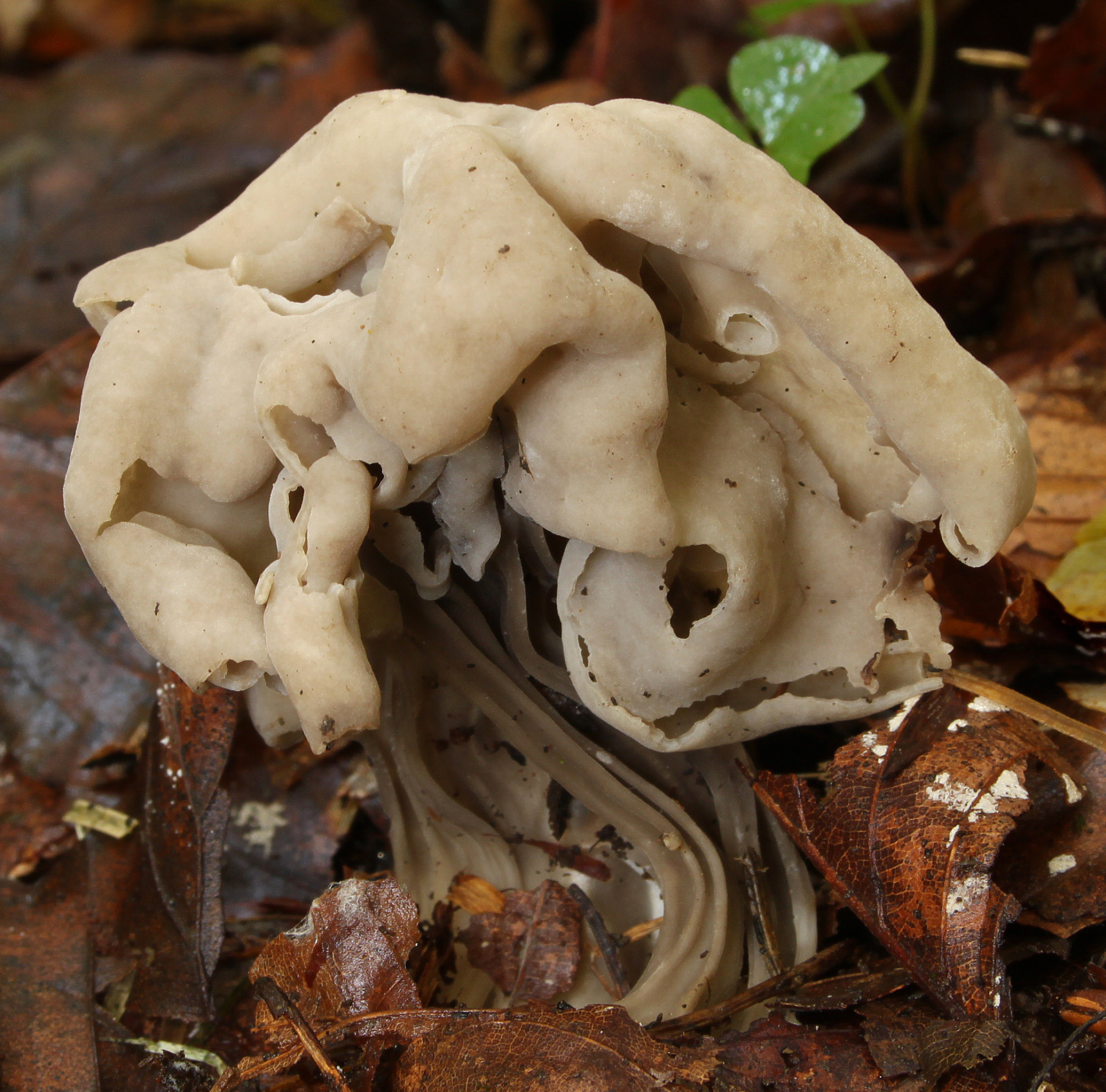 White Saddle, Elfin Saddle or Common Helvel Helvella crispa syn. H. pithyophila - older and darker form, Family: Helvellaceae, Location: Germany, Laichingen